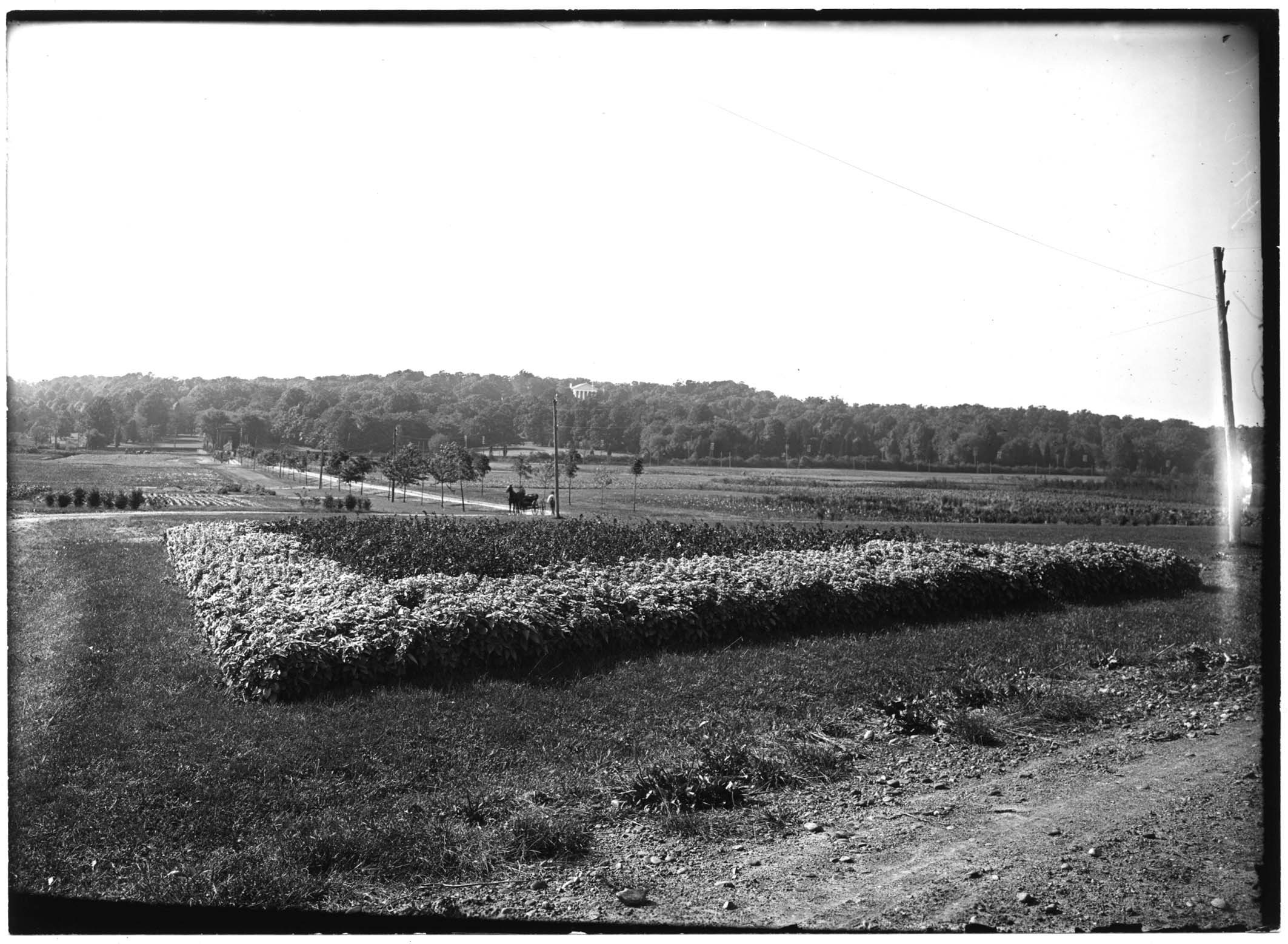 View of the Arlington Experimental Farm, on the southern bank of the Potomac River, October 1907. Part of this land is now the site of the Pentagon. The Custis-Lee Mansion can be seen on the hillside in the distance.Series VII.1, Photographs, Box 7.1/1, file "from I.1--IX B 4e (1). Regional Research Laboratories." USDA History Collection, Special Collections, National Agricultural Library. Source -- Series VII.1, Photographs, Box 7.1/1, file "from I.1--IX B 4e (1). Regional Research Laboratories." USDA History Collection, Special Collections, National Agricultural Library.